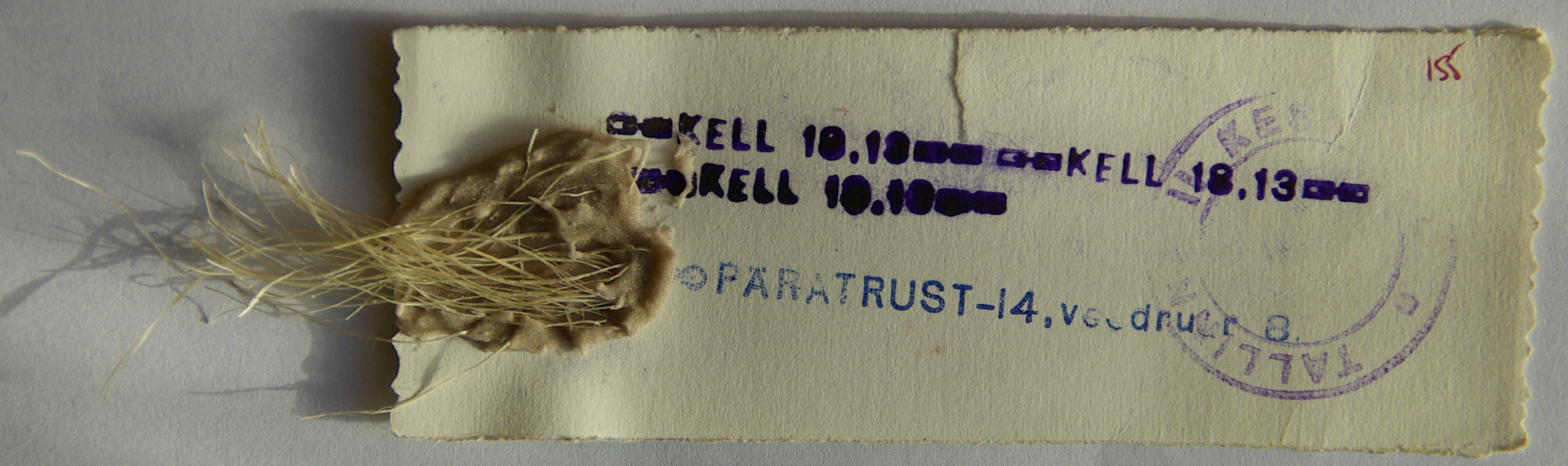 schoolparty ticket from 1981